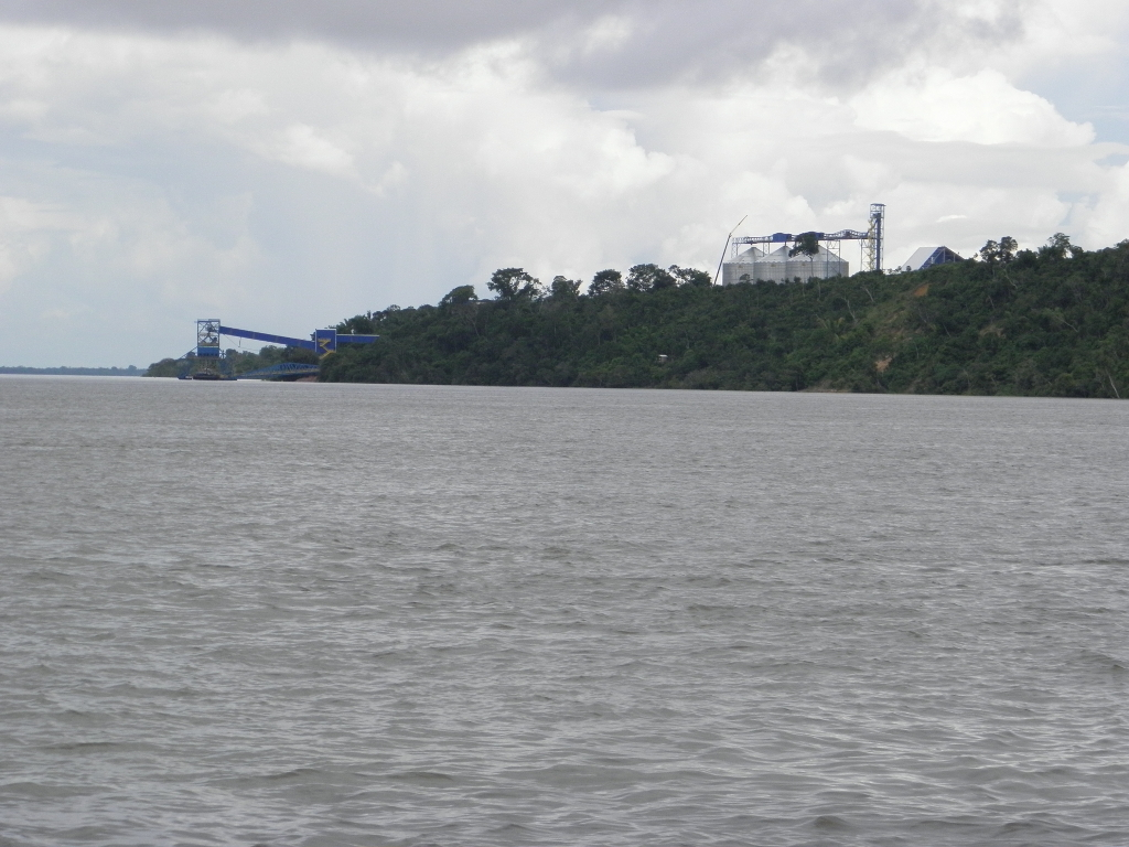 Soybean Export Facility at Itaituba, Brazil